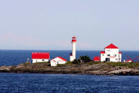 Isolated house in the middle of the ocean